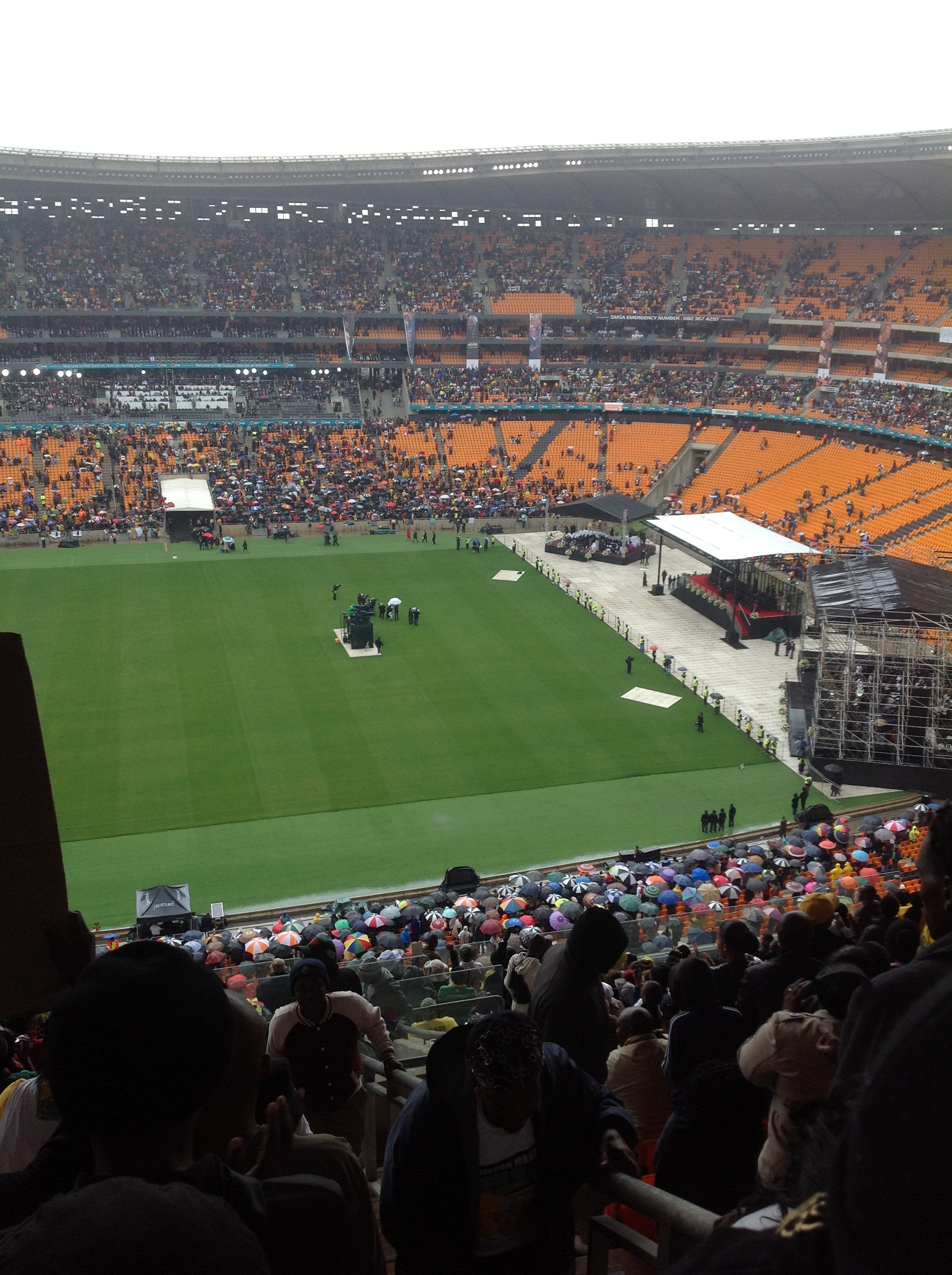 East view of FNB Stadium